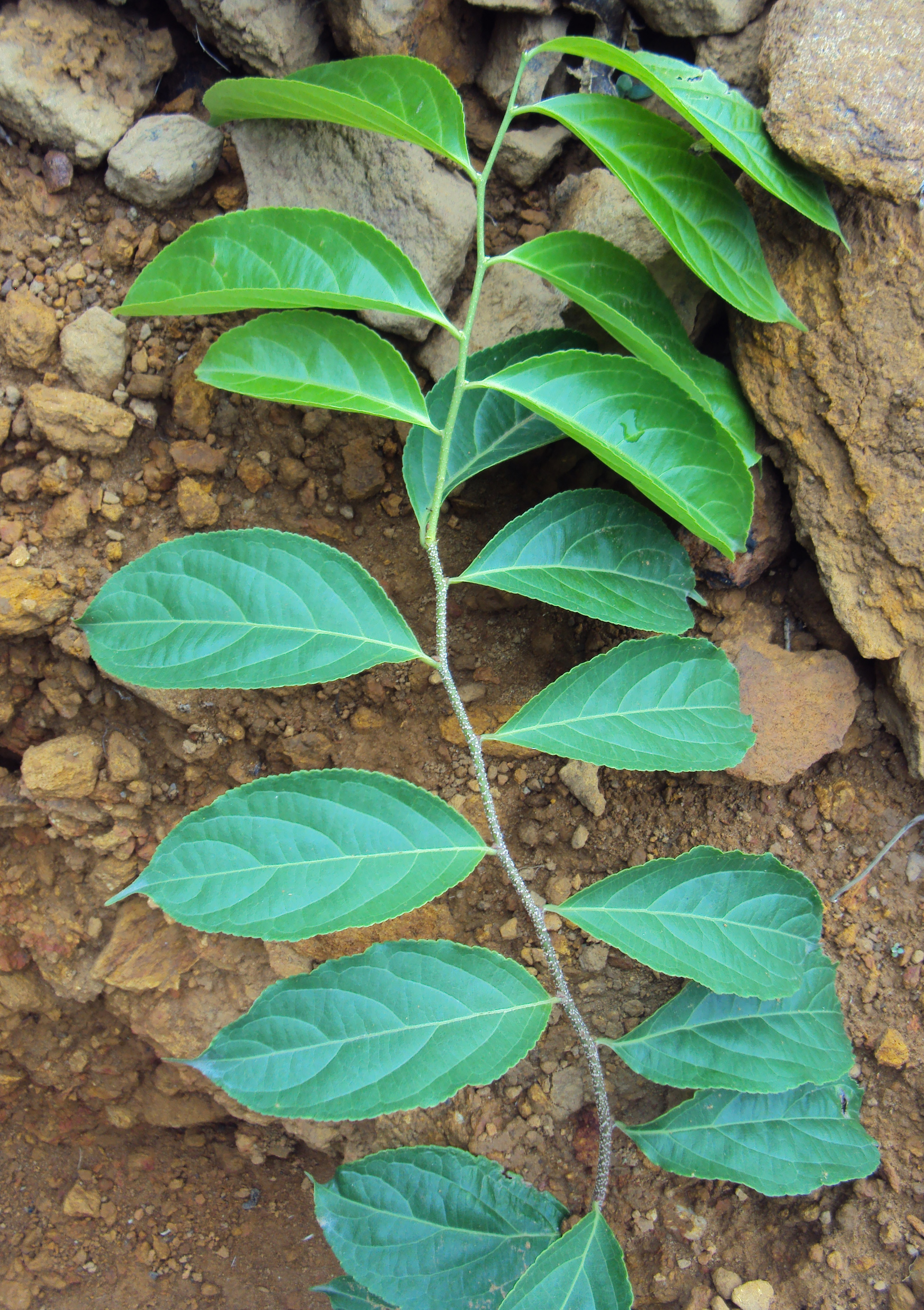 Celastrus paniculatus